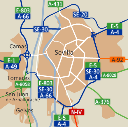 mapa SE-30